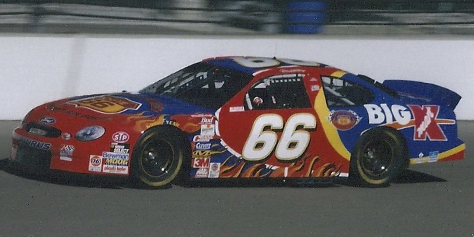 Screen Shot, July 2018